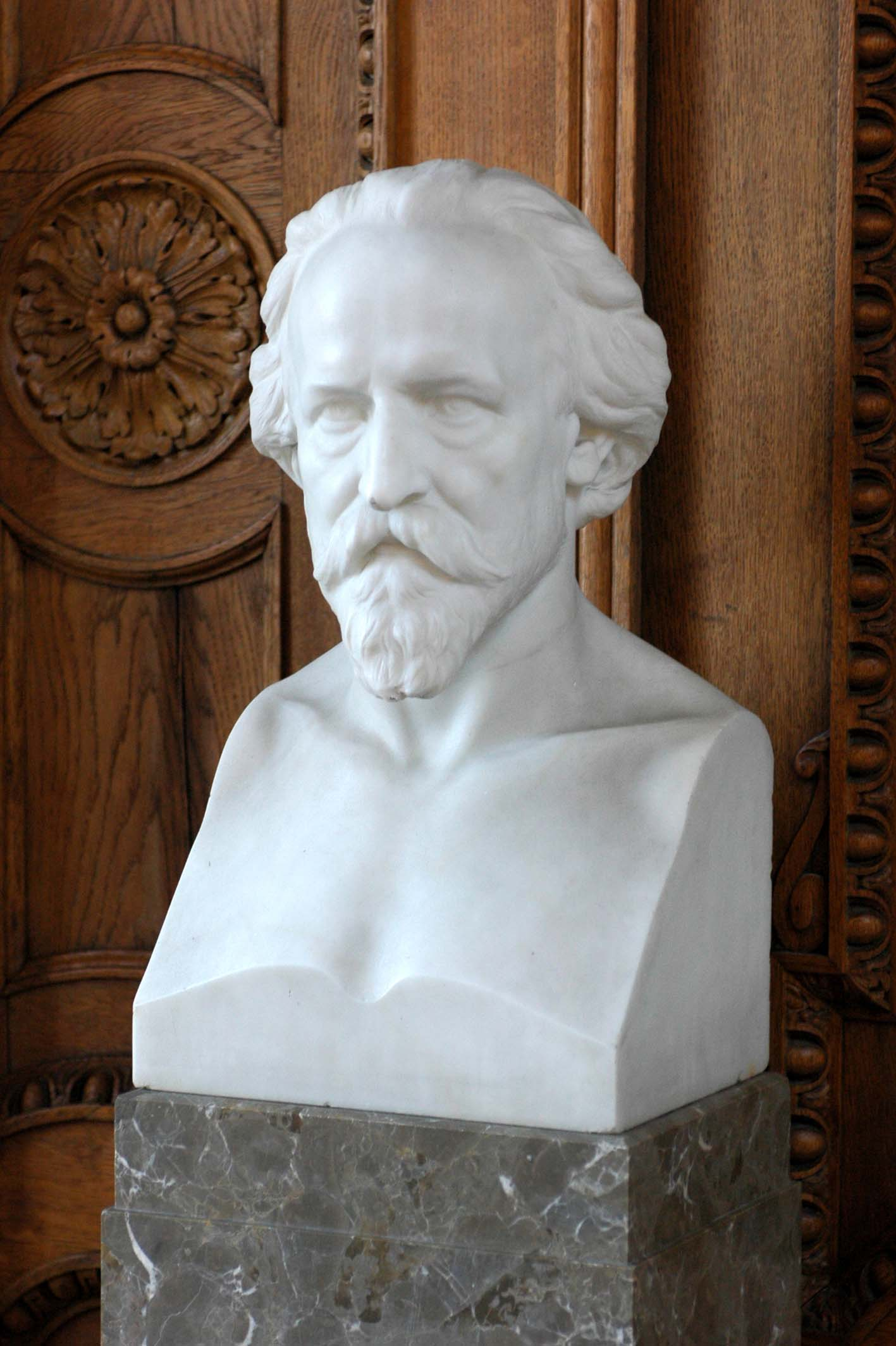 Adolf von Wilbrandt, * 24.08.1837, + 10.06.1911 Rostock. Writer, Vienna Burgtheater director 1881-1887 was married to Auguste Wilbrandt – Baudius, Vienna Burgtheater actress.